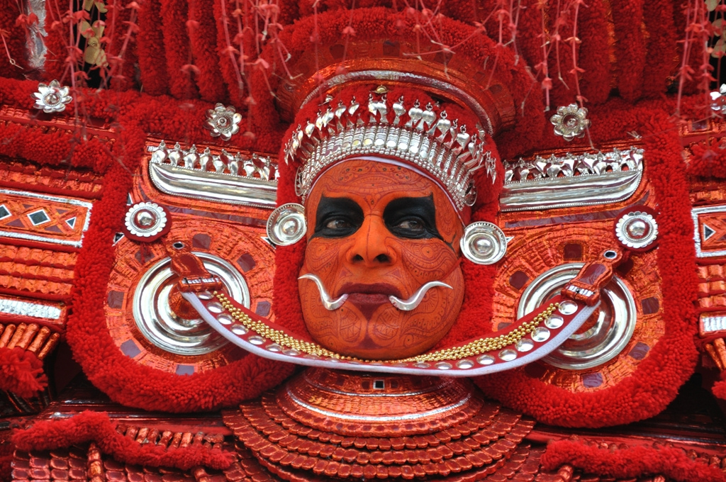 Muchilottu Bhagavathy Theyyam